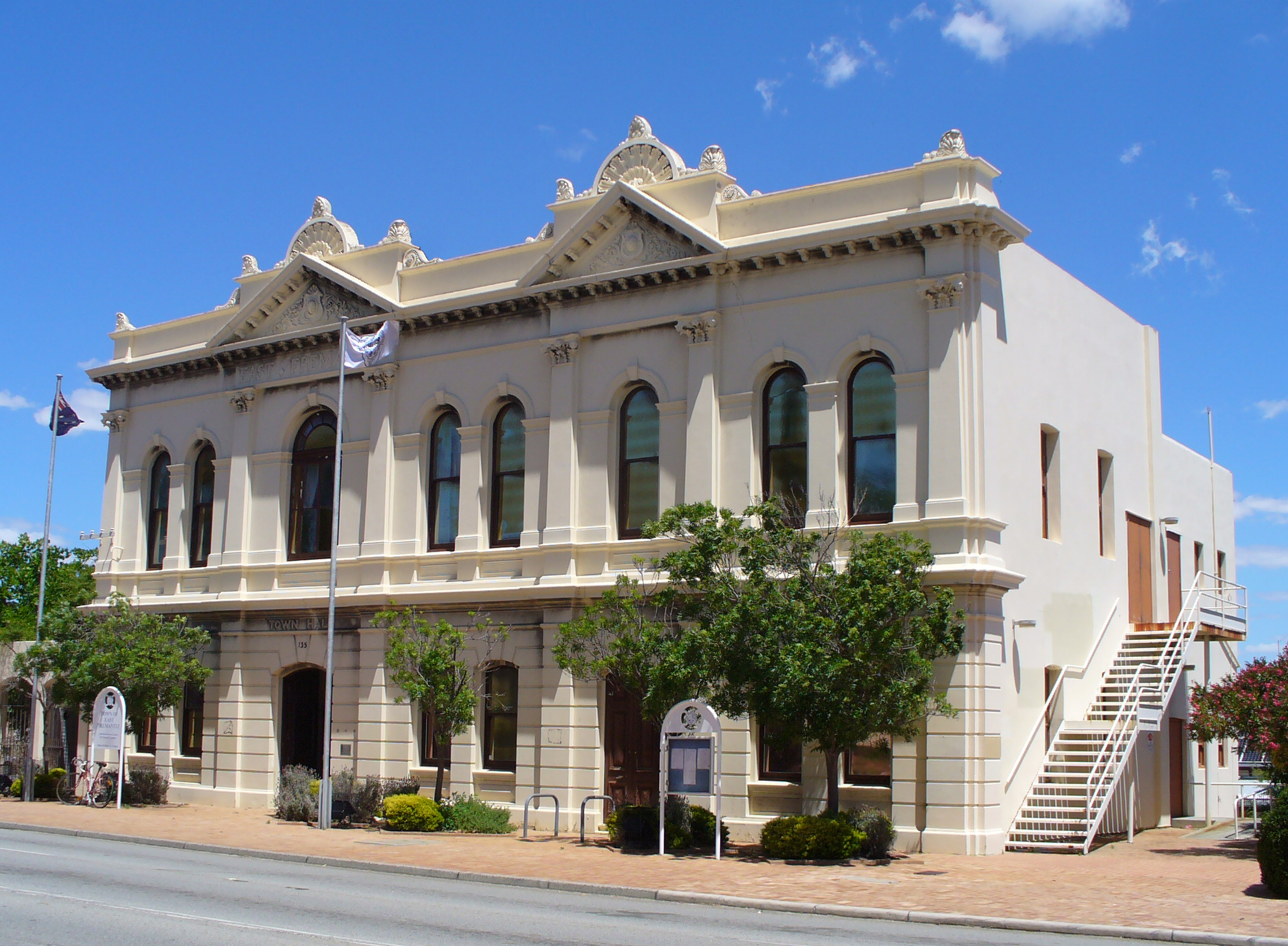 A photograph of the East Fremantle Town Hall.